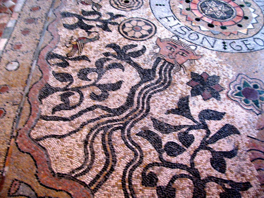 Middle-age mosaic, the Fison, one of four rivers of Genesis - Ancient bishop's palast, Die (Drôme) France